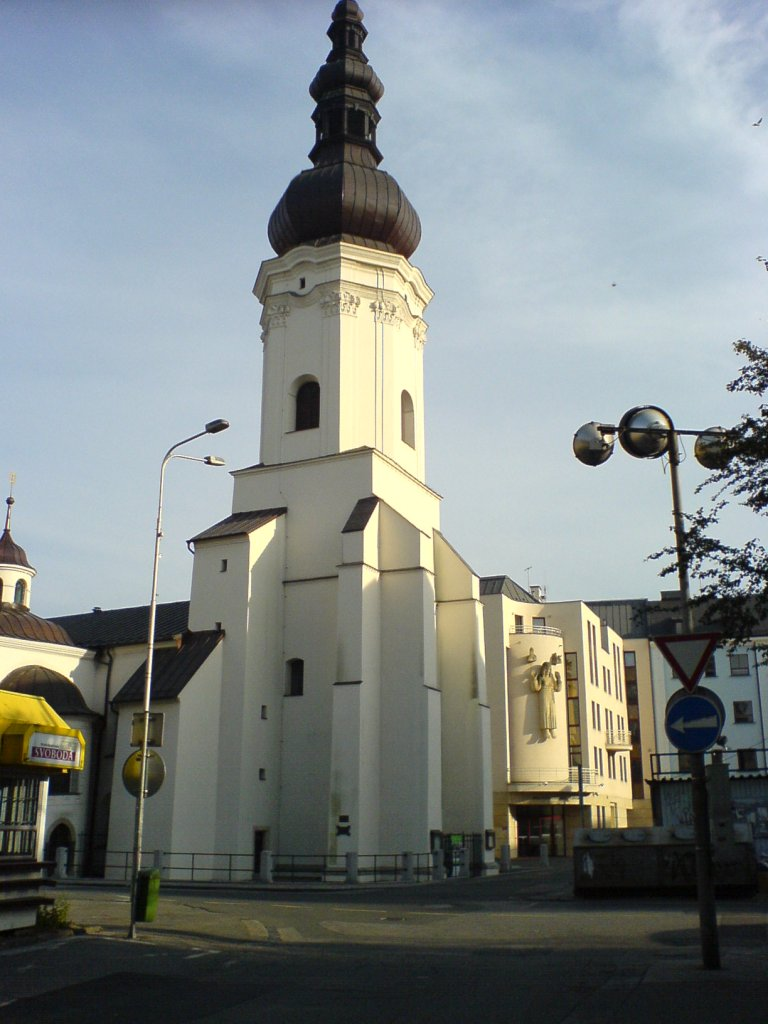 Church of Saint Wenceslas, Ostrava.